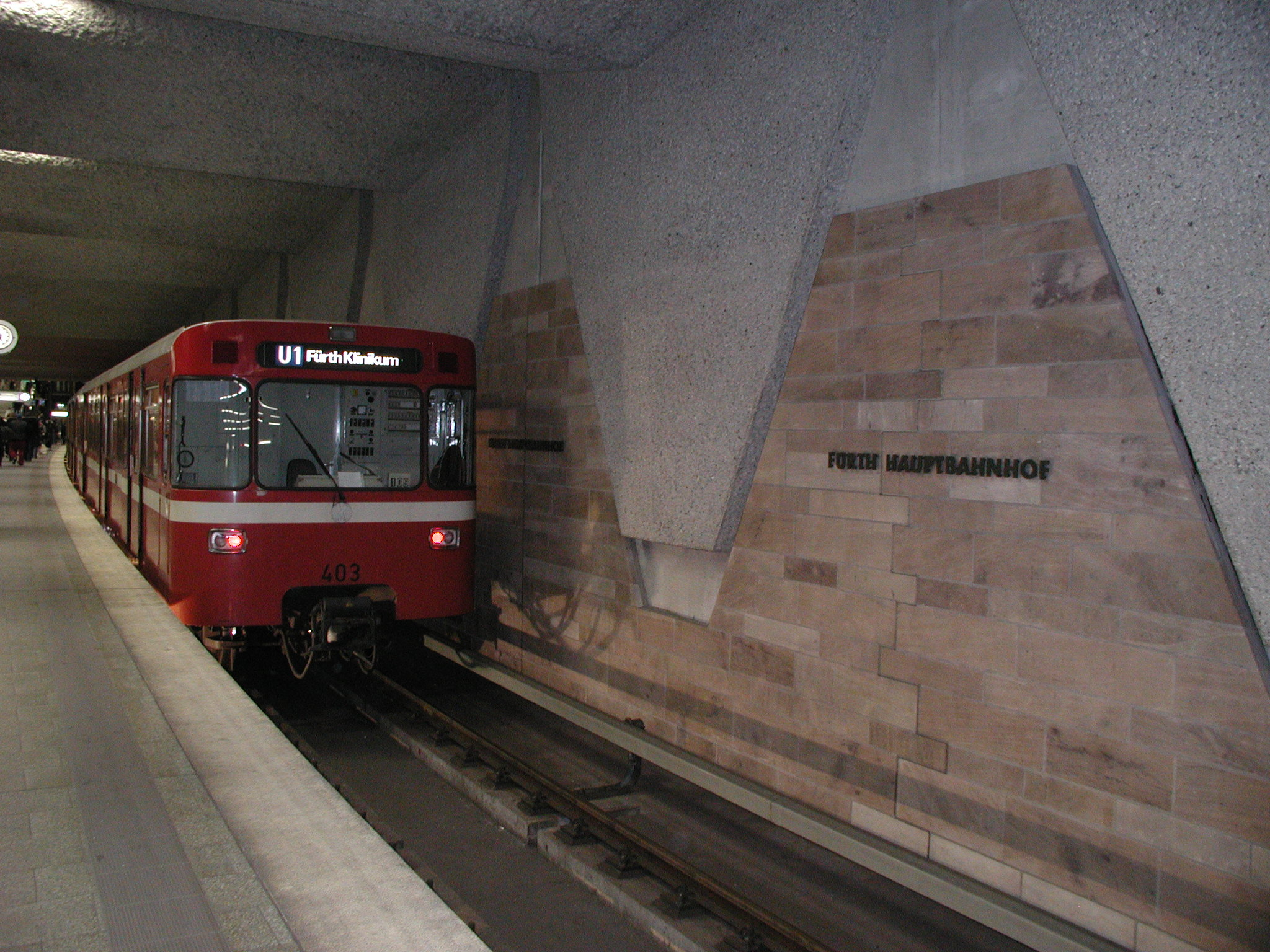 Subway station Fuerth Main Railway Station